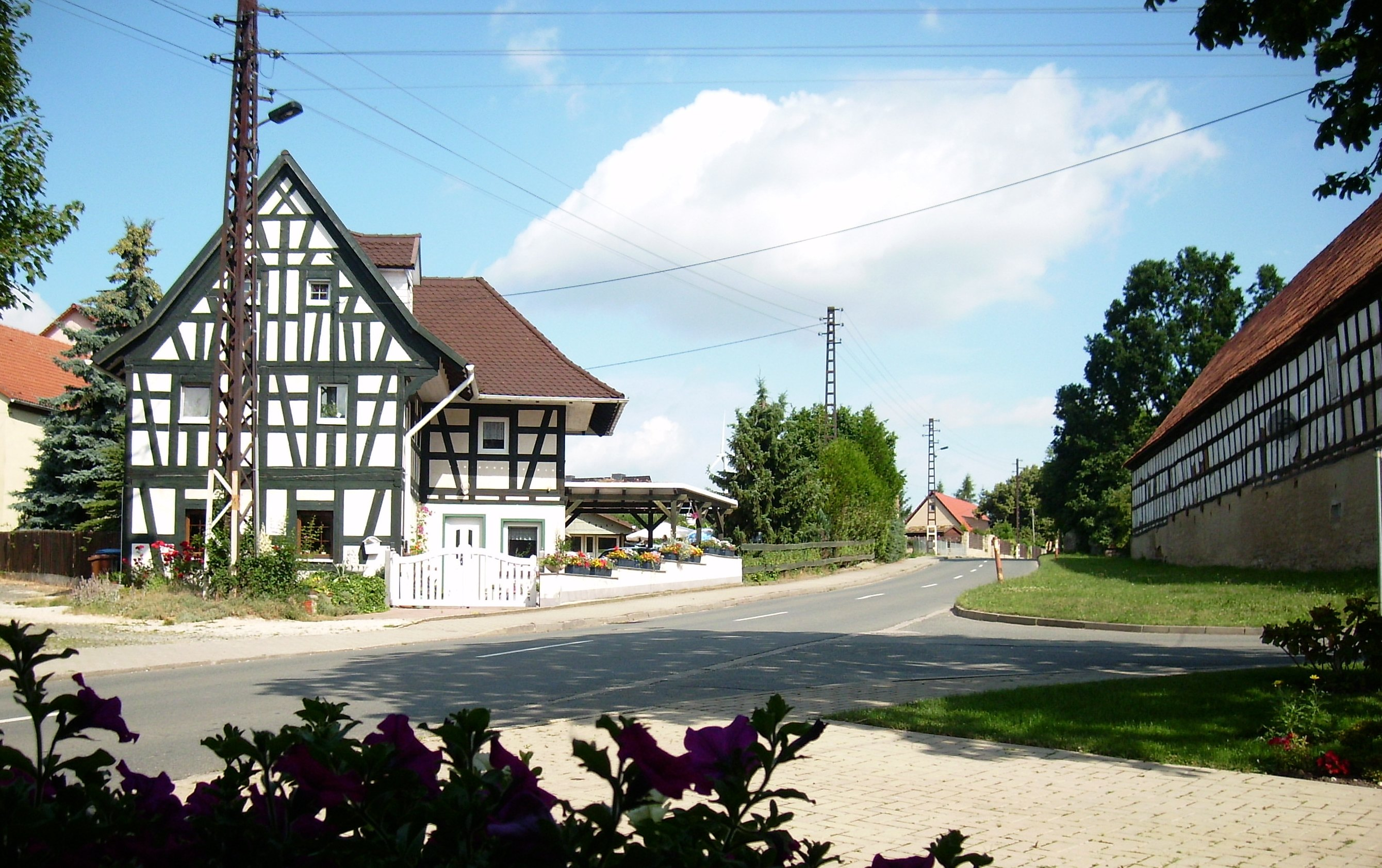 Half-timbered buildings at the main road in Geussnitz (Zeitz, district of Burgenlandkreis, Saxony-Anhalt)